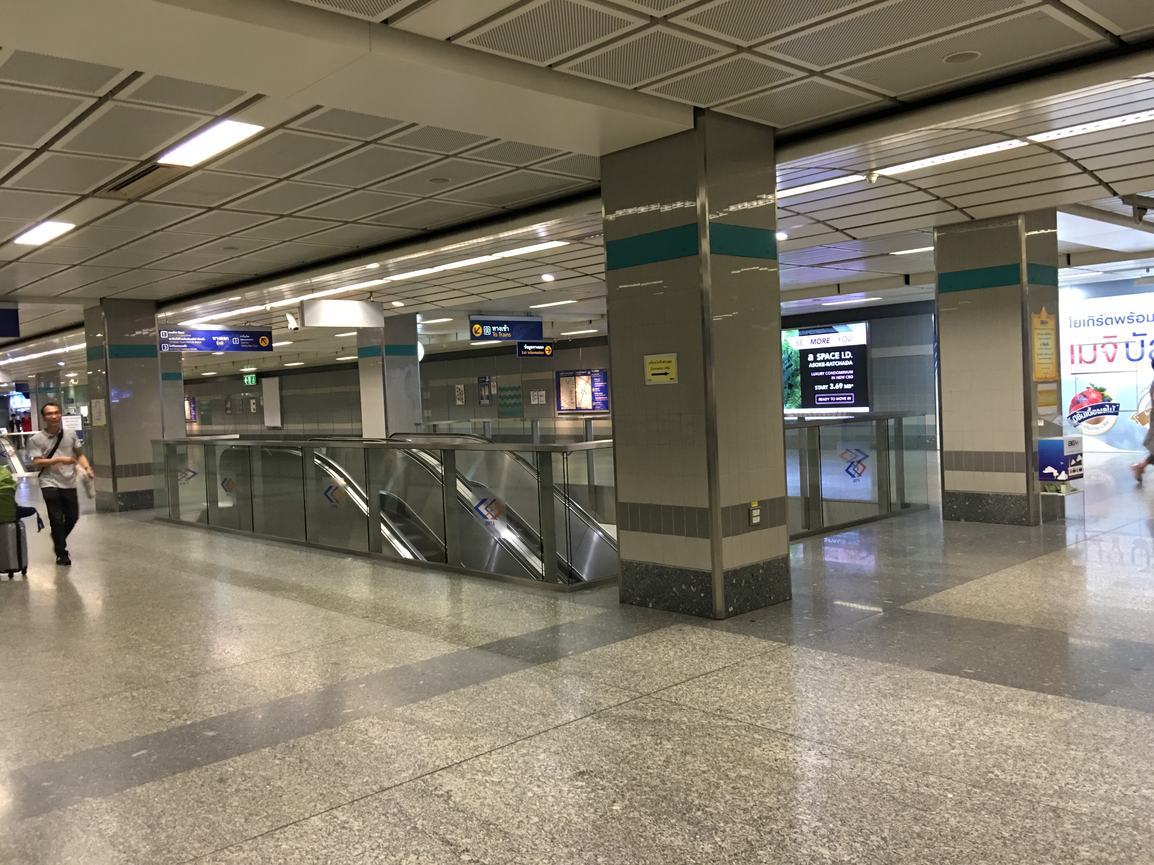 The concourse level of Phetchaburi MRT Station